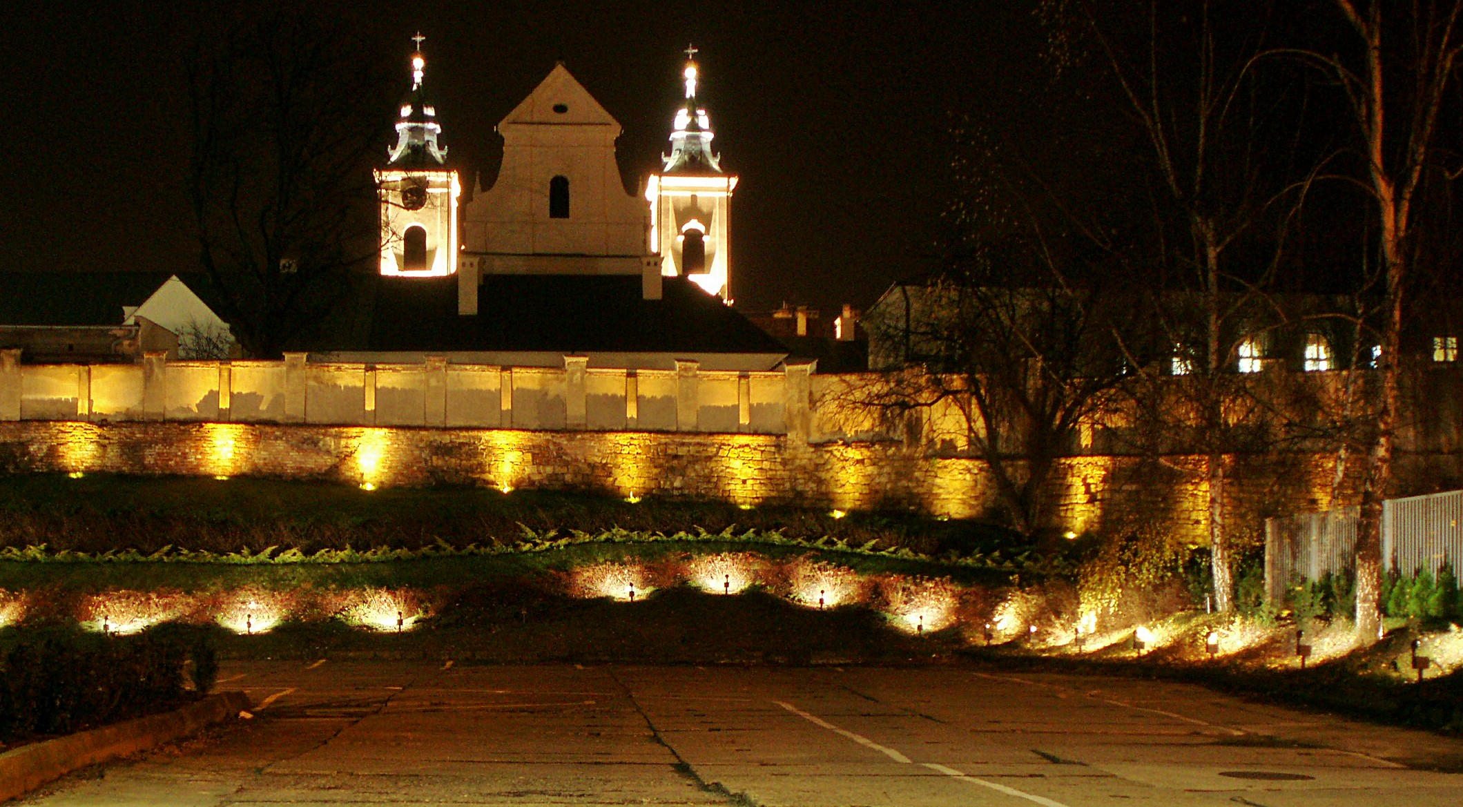 City Wall on a back of Holy Cross Church in Rzeszów (Poland)